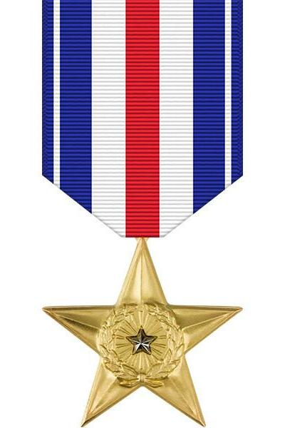 Silver Star {obverse), the military decoration that can be awarded to a member of any branch of the United States armed forces for valor in the face of the enemy